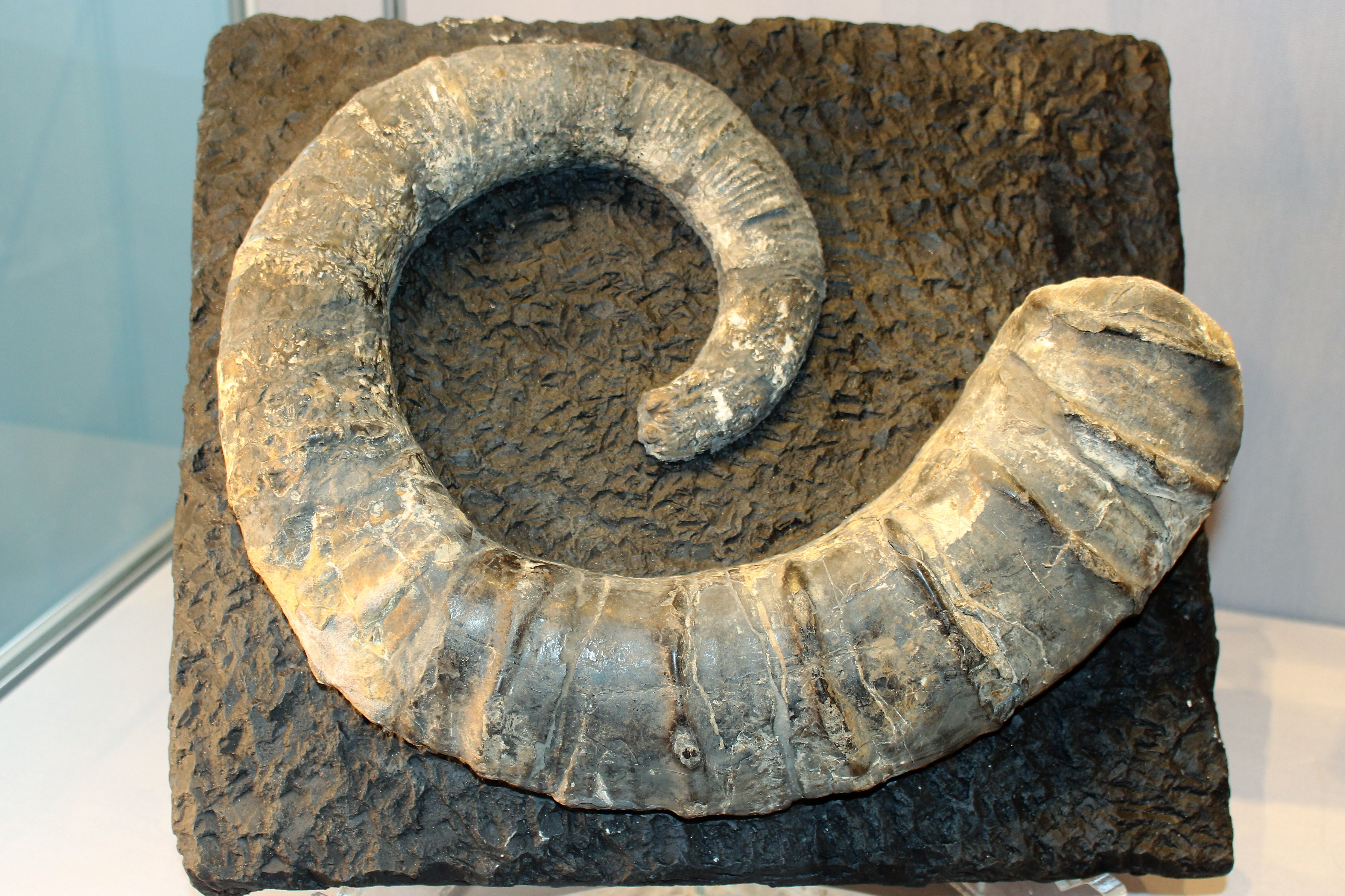 Crioceratites sp. in the Rotunda Museum, Scarborough, England.